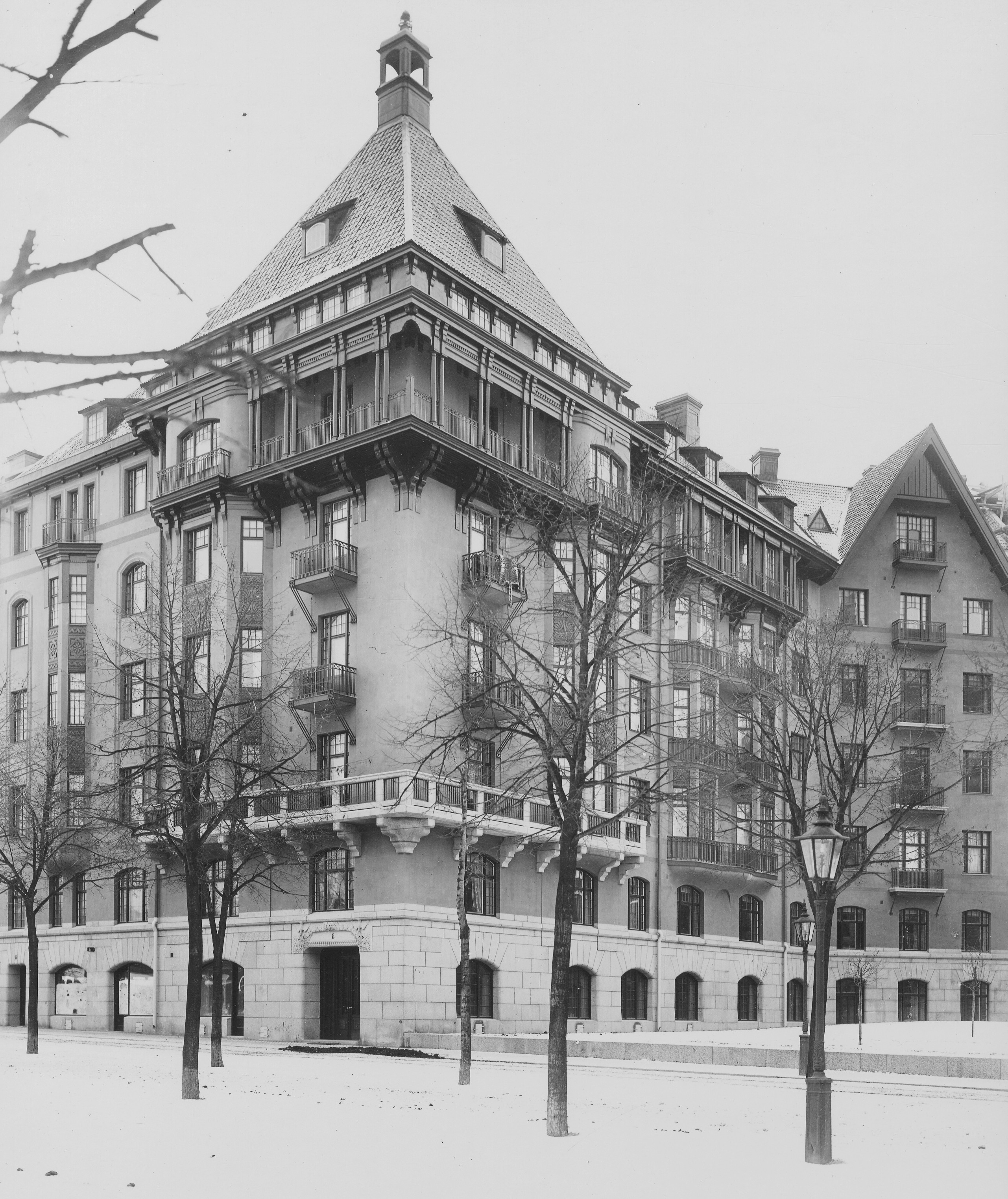 Narvavägen 8